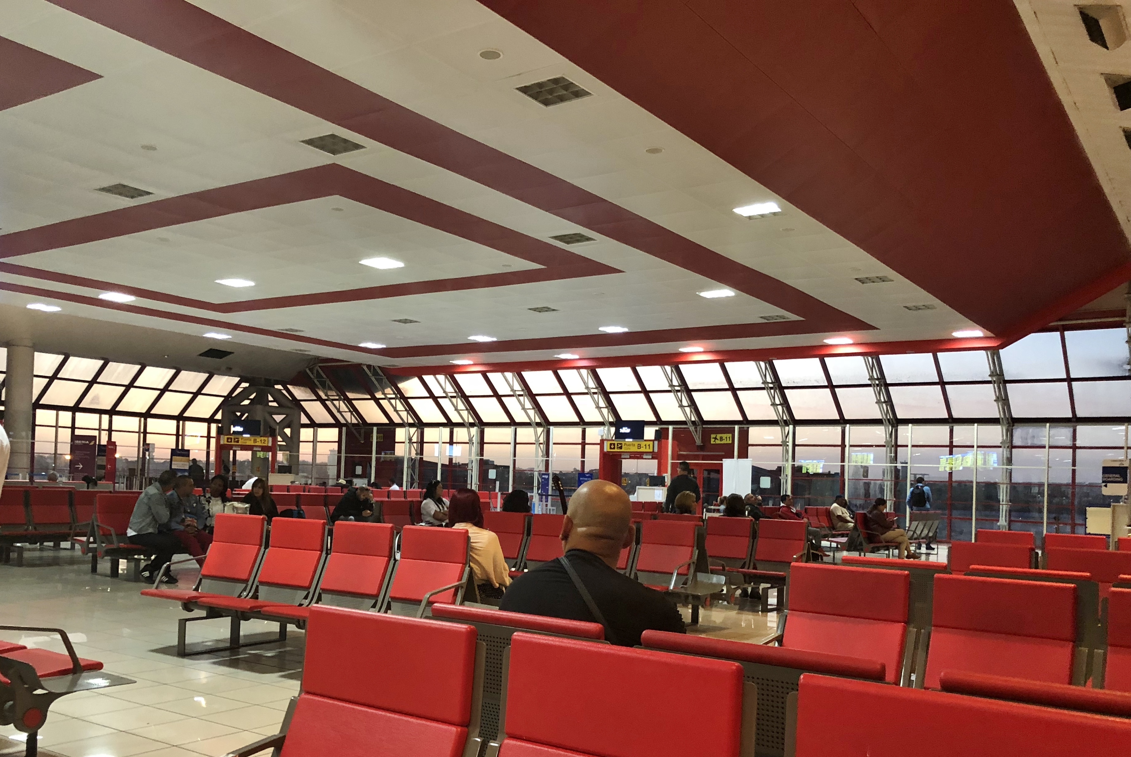 Jose Marti Airport Terminal 3 waiting area.